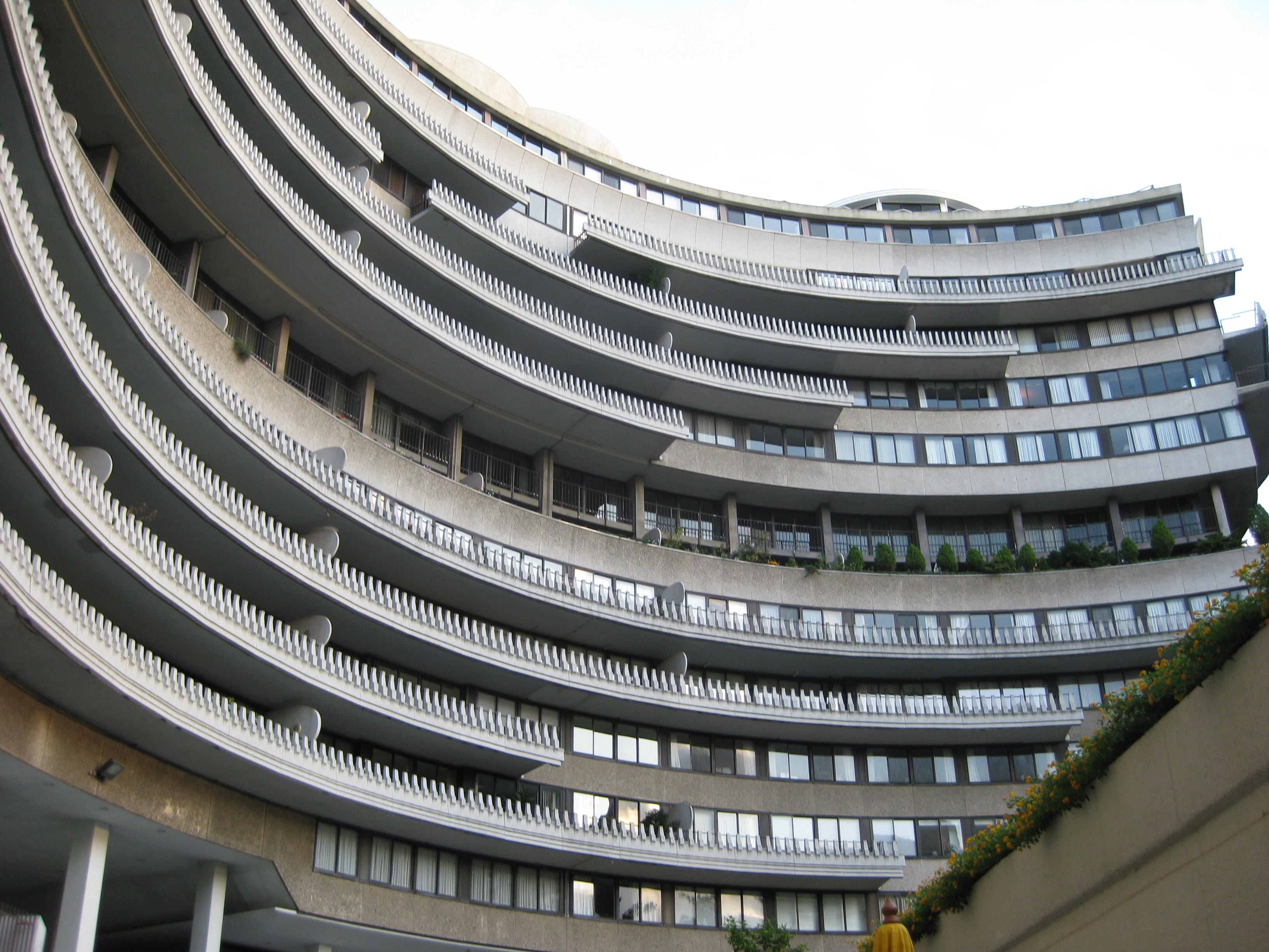 View of the Watergate Complex from its main courtyard near the supermarket